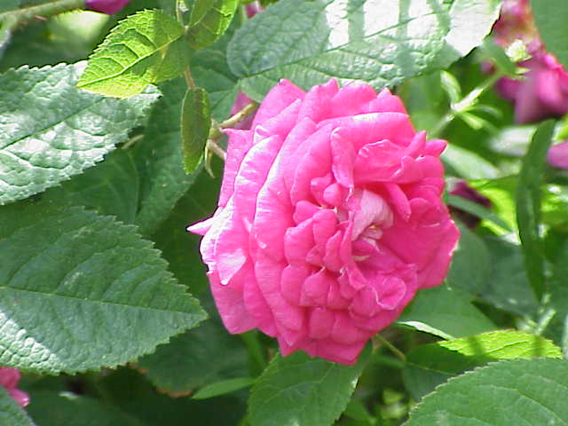 Species: Rosa sp. Family: Rosaceae Cultivar: Rose du Roe Image No. 248